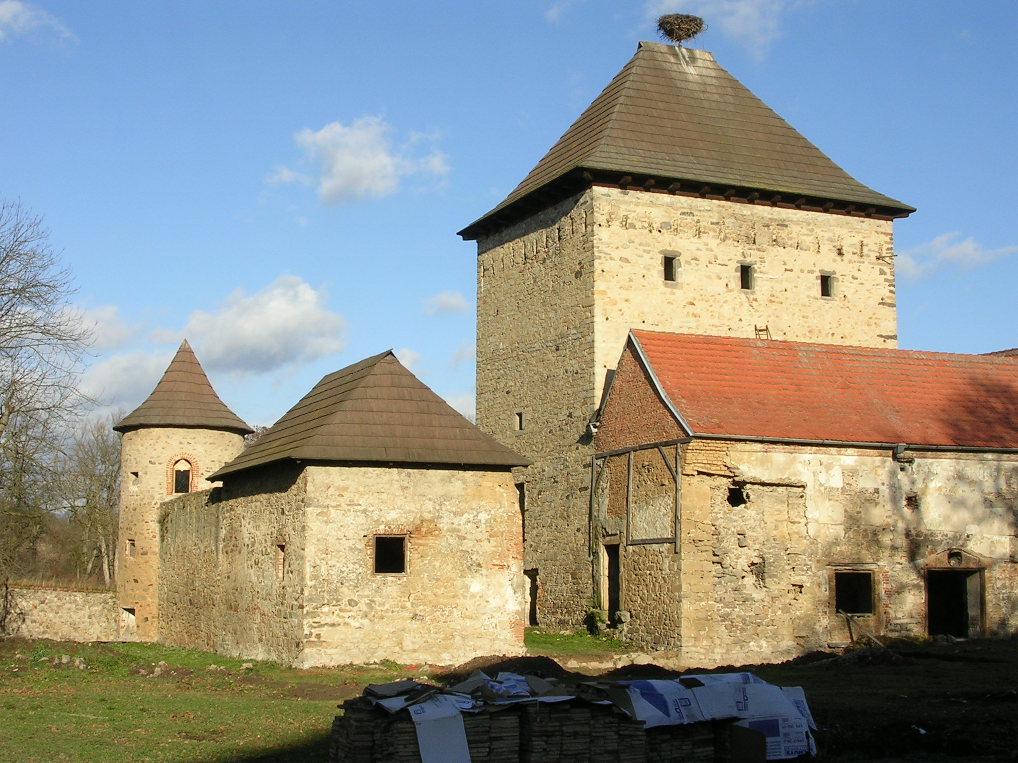 Dolní tvrz in the Kestřany, the Czech Republic